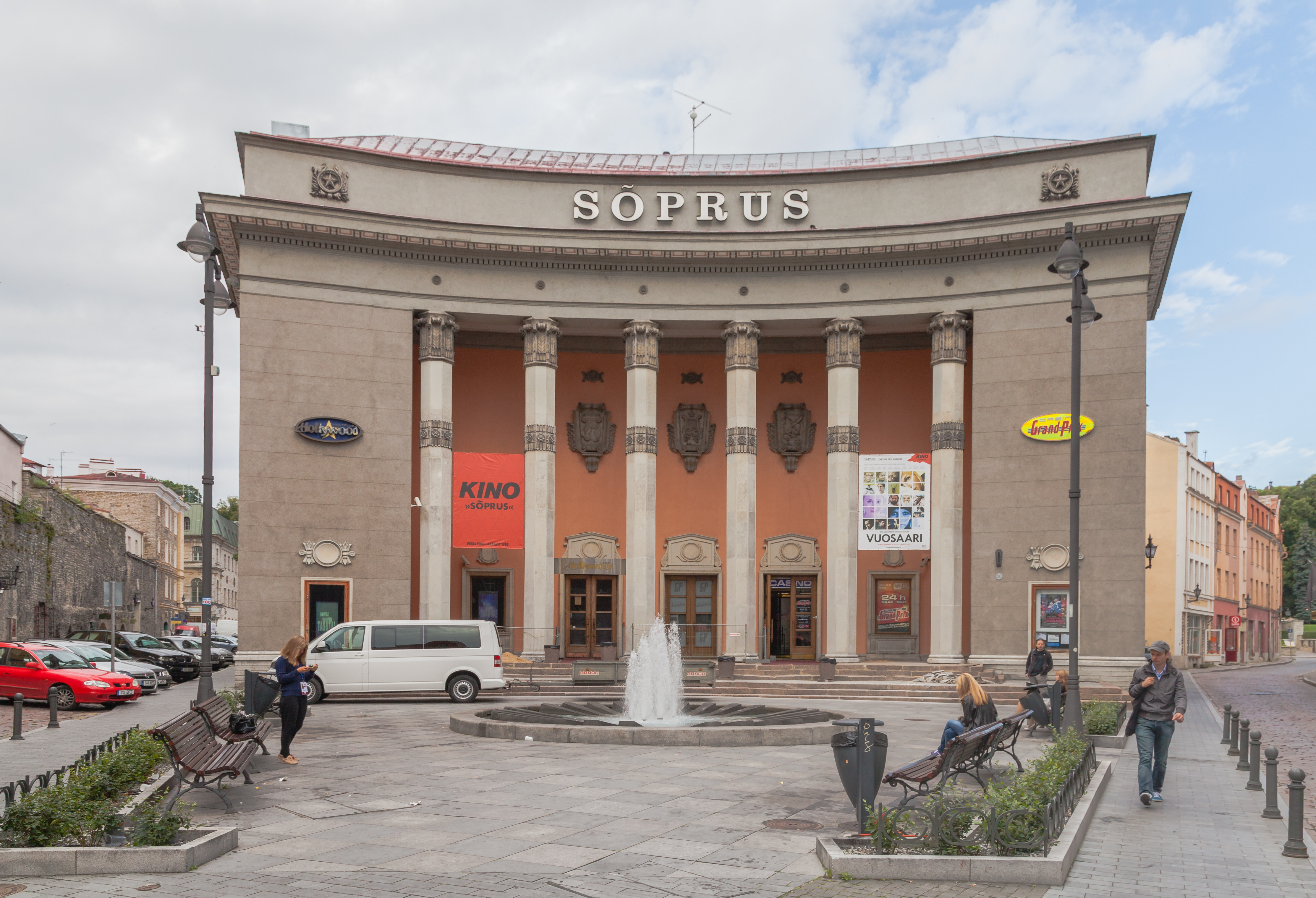 Cinema Soprus, Tallinn, Estonia